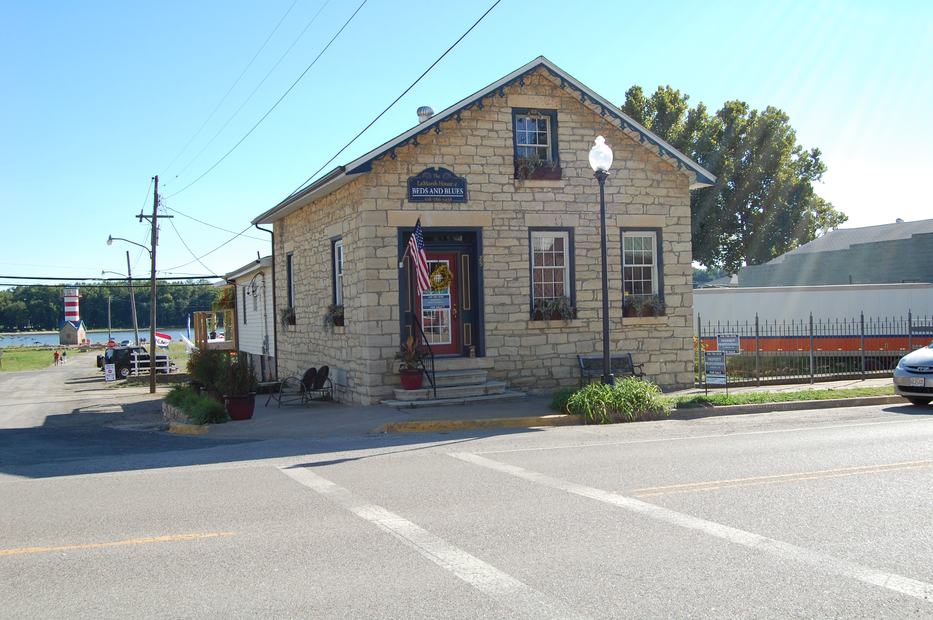 25 E. Main St. (Illinois Route 100) Grafton